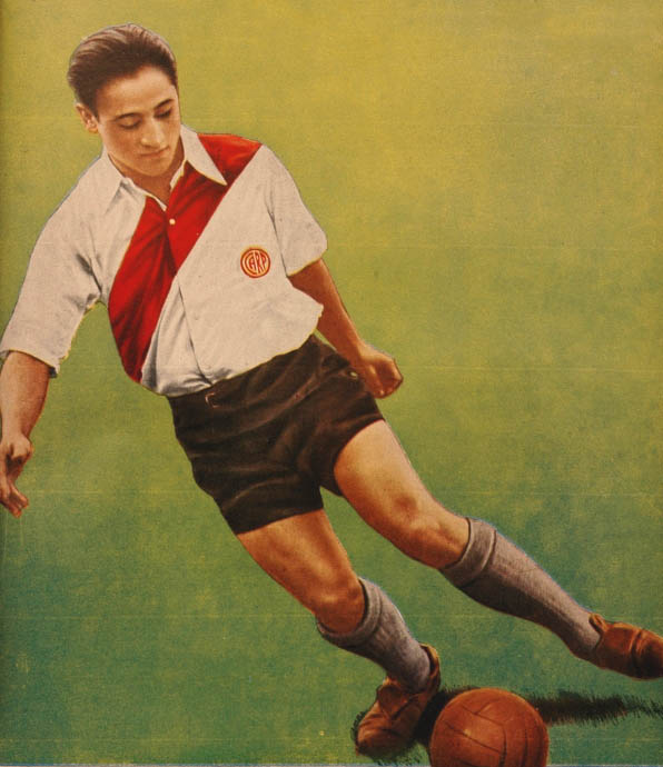 Argentine football player Adolfo Pedernera pictured by El Gráfico.